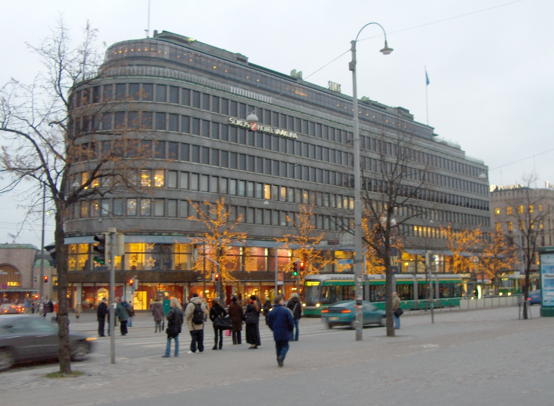 Sokos hotel Vaakuna and Sokos department store in Helsinki